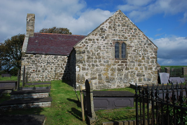 Eglwys S Baglan Llanfaglan St Baglan's Church. See 961169